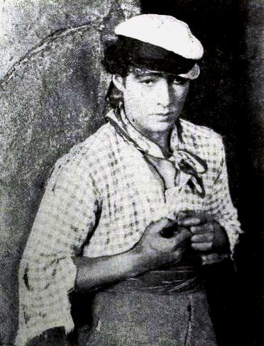 Still from the American film Blood and Sand (1922) with Rudolph Valentino, page 91 of the August 1922 Photoplay.